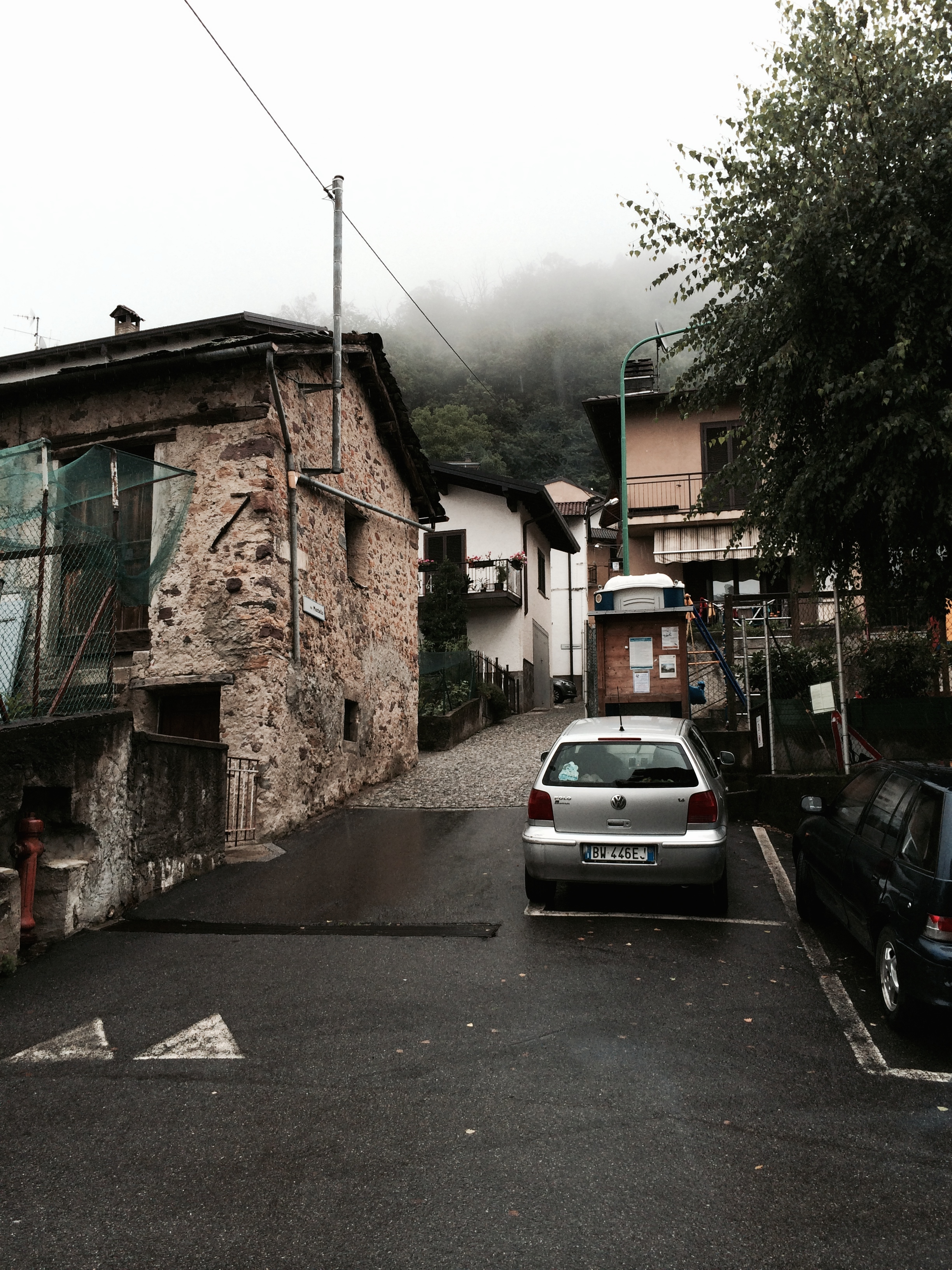 Crandola Valsassina under the rain.